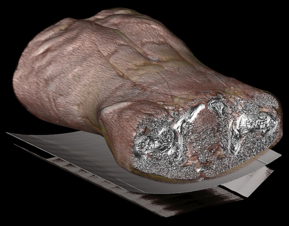 edit Computed tomography of the abdomen and pelvis, performed as a contrast CT, here presented as a volume rendering, specifying the scan range and field of view (FOV). It shows normal anatomy, with no injuries. The subject is a 21 year old male who had blunt trauma to the upper abdomen during motocross. Without annotations With box With box and textVector (.svg) version is available Reference for scan range and field of view terminology: Page 41 in: M. A. Hayat (2007) Cancer Imaging: Instrumentation and Applications, Volume 2, Academic Press ISBN: 9780080553764.